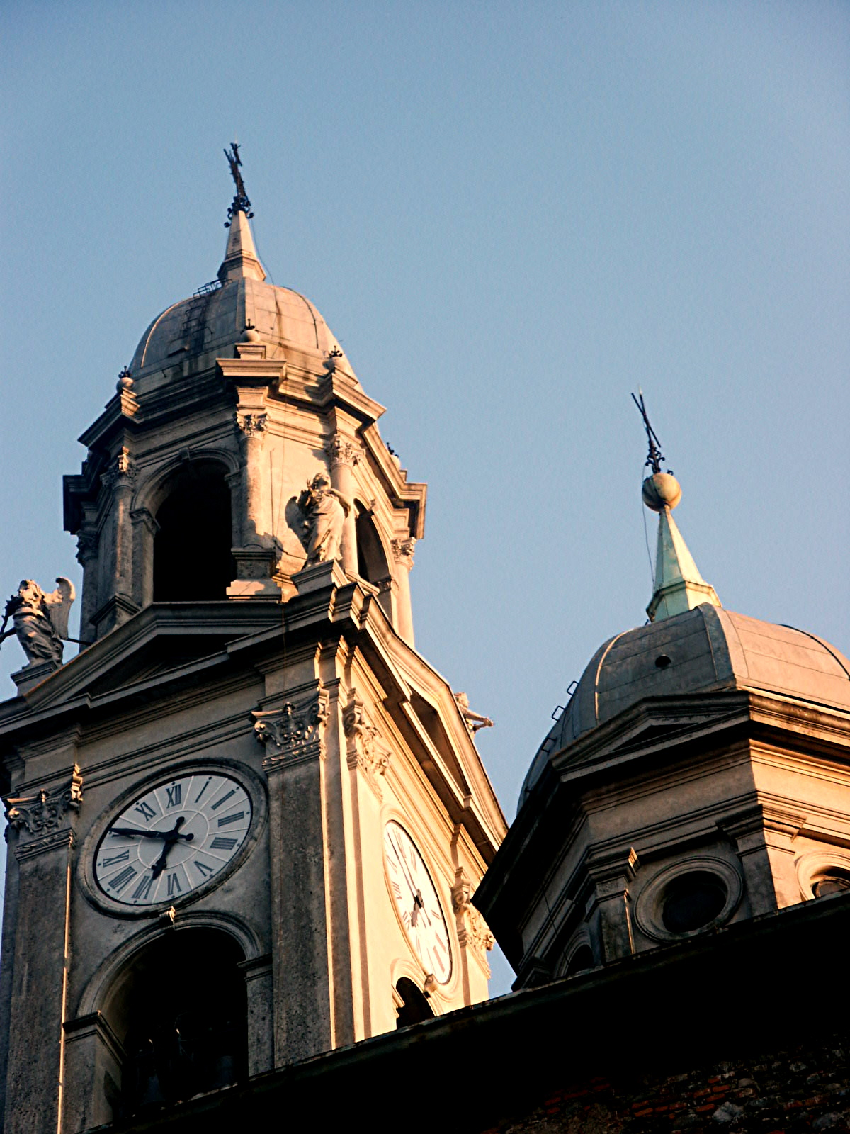 Church of St. Vito, Lomazzo